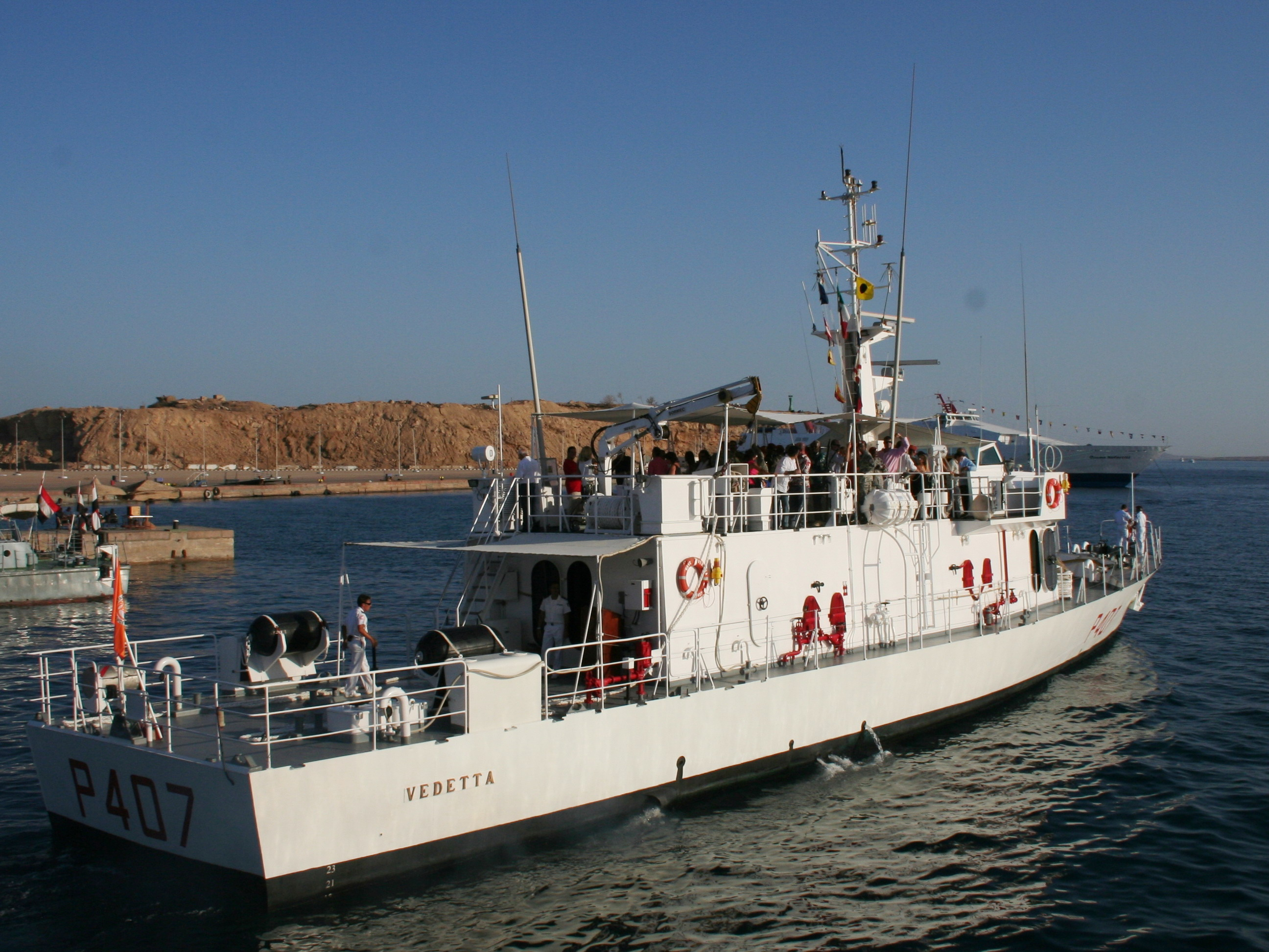 Italian naval vessel of the Esploratore Class